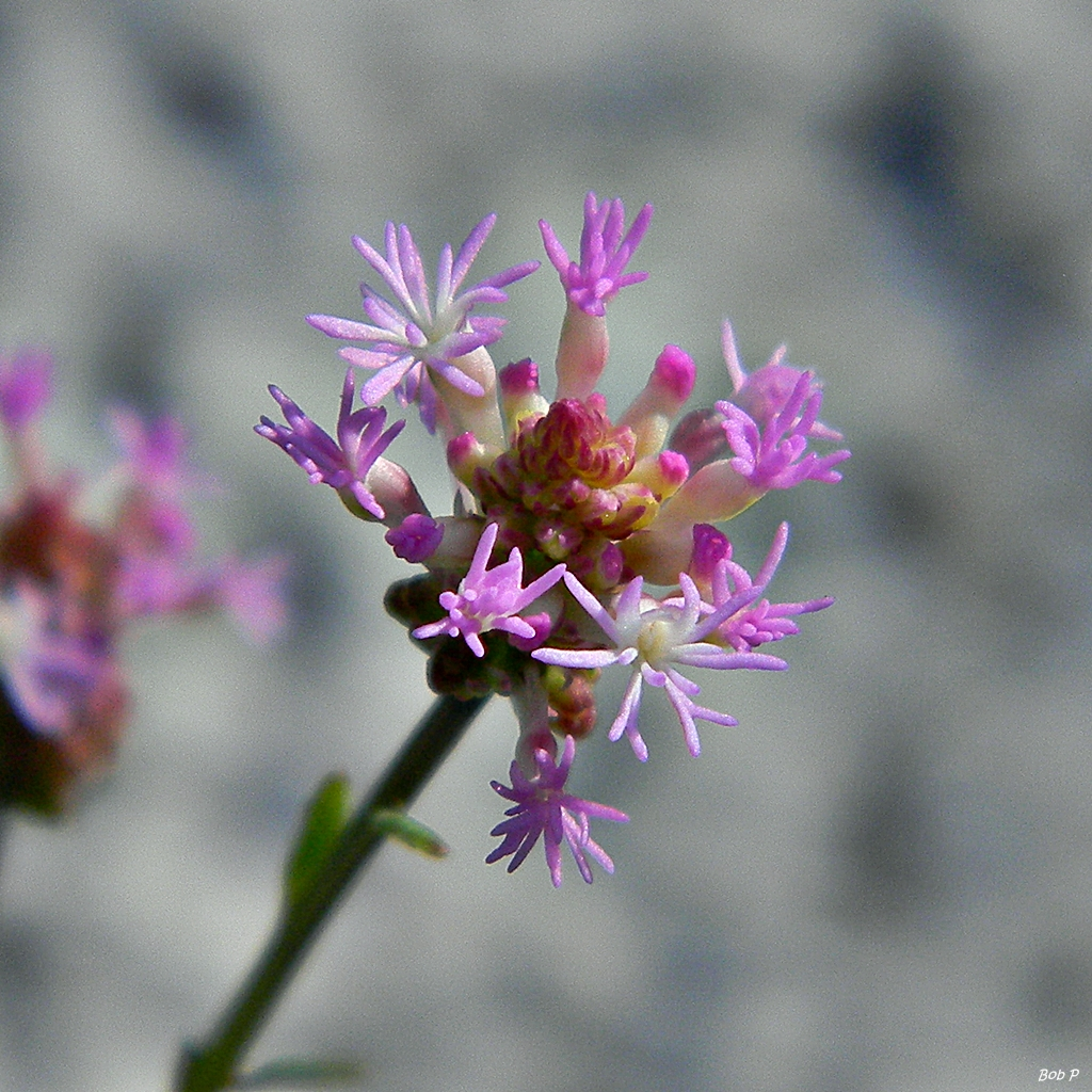 Polygala incarnata at Juno Dunes. I noticed some very small pink wildflowers blooming in the middle of a sandy road in the scrub but didn't recognize them as Procession flower until I saw them enlarged on the computer. These were smaller than the ones that grow in the moist flatwoods section in the northern half of the preserve.